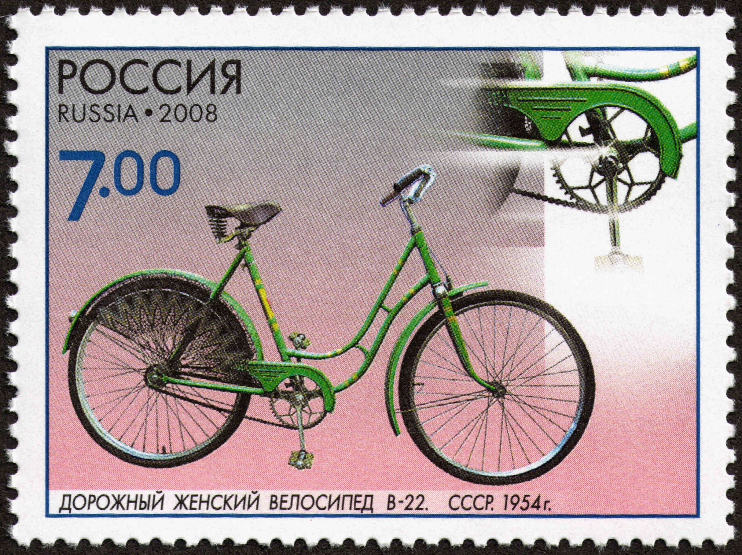 The monuments of science and technique. Bicycles.The ladies bicycle V-22 (В-22). USSR. 1954. Kharkiv Bicycle Factory.The stamp of Russia, 7.00 Rubles, 11 December 2008, PTC Marka Catalogue No 1289, Michel No 1521. Coated paper. Offset printing. Perforation: comb 12:11½. Size of the stamp: 50×37 mm. Print run: 800,000.